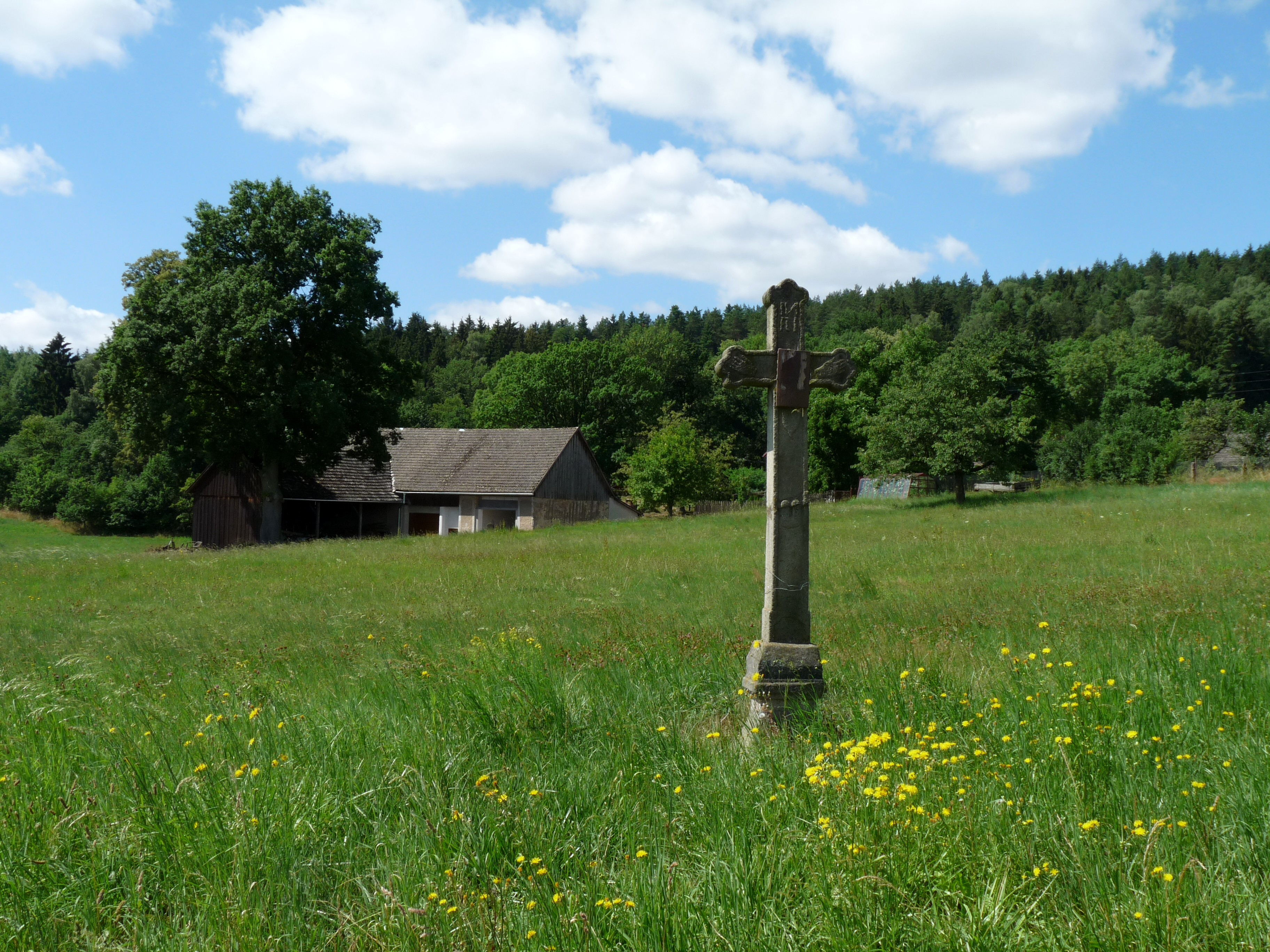 Stone wayside cross in Horní Březinka, a small village which is part of the town of Světlá nad Sázavou, Havlíčkův Brod District, Vysočina Region, Czech Republic.